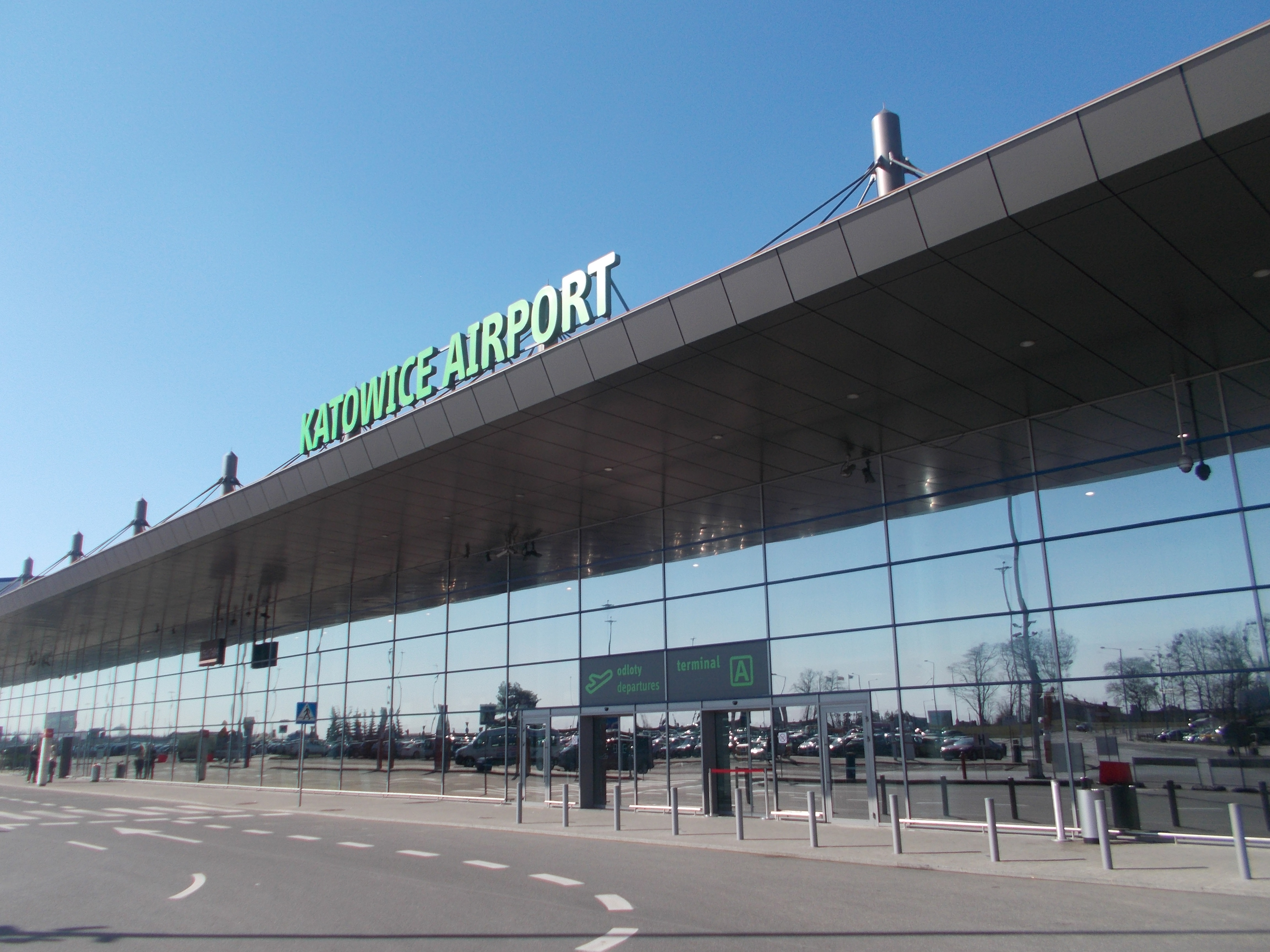 Terminal A outside